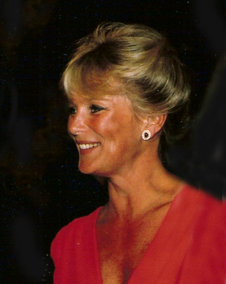 Linda Evans at Carousel Ball in Denver (cropped)